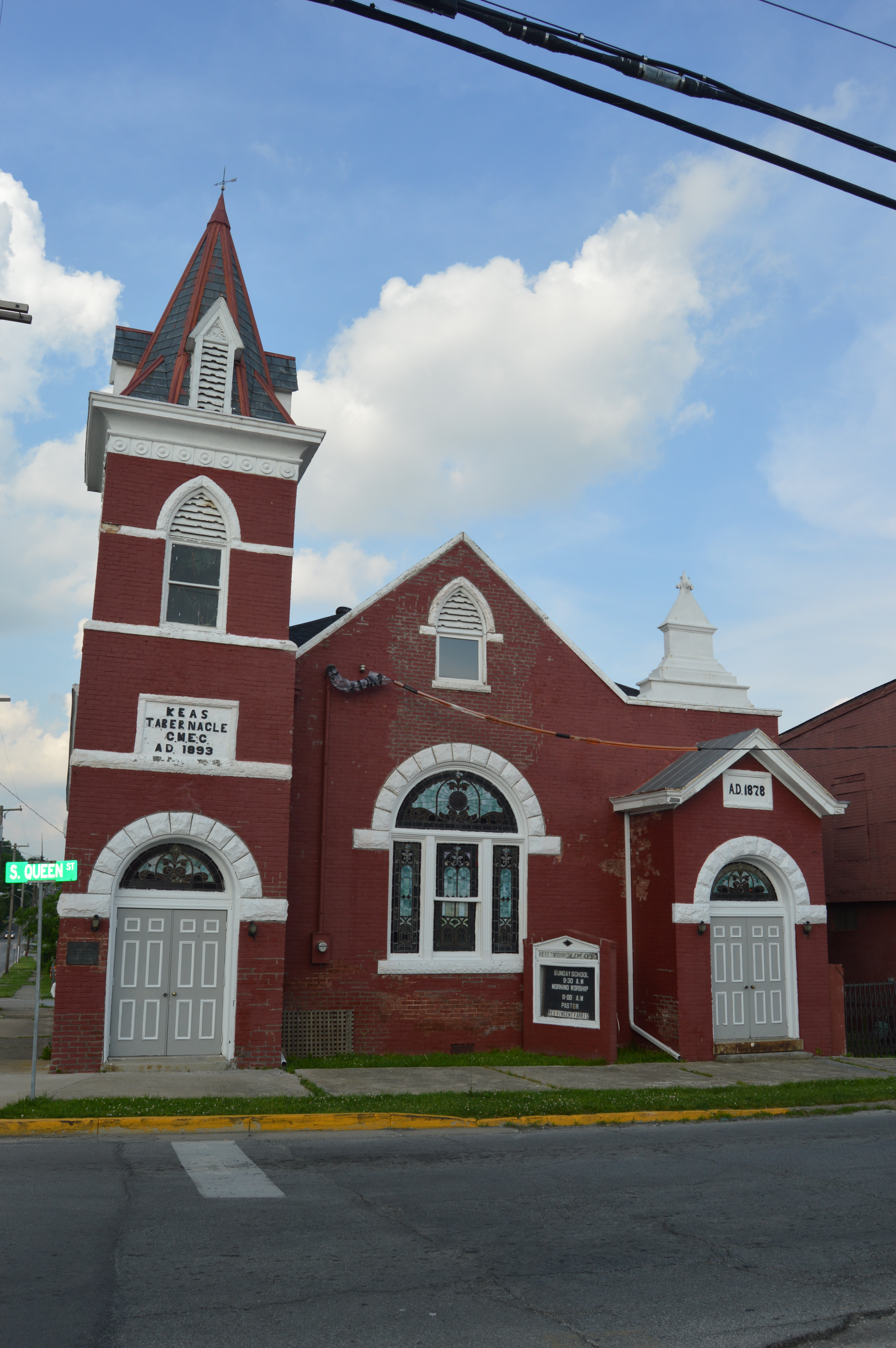 Front of KEAS Tabernacle CME Church, located at 101 S. Queen Street along Kentucky Route 713 in Mount Sterling, Kentucky, United States. Built in 1893, it is listed on the National Register of Historic Places.